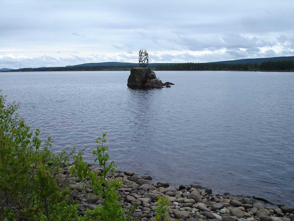 Skinnmuddselet reservoir in the Gide River in Sweden with the artwork "Poem for an imaginary river".